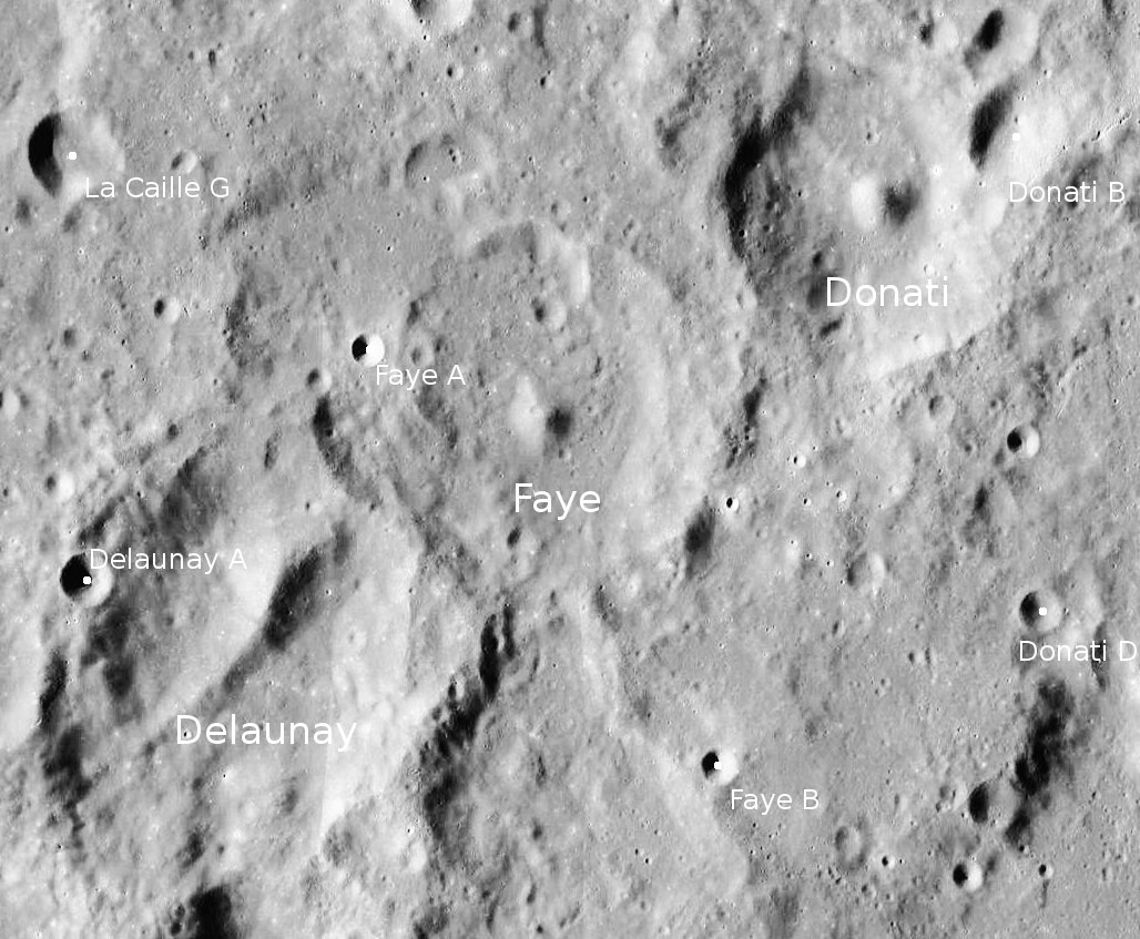 Craters Delaunay, Faye and Donati (detail of LRO - WAC global moon mosaic; Mercator projection)